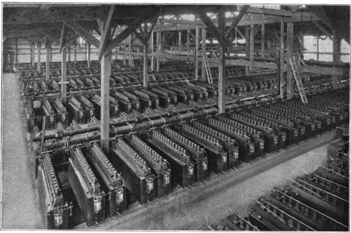 Cell room of a chlorine-caustic soda plant - six banks ok 74 cells each (Edgewood, Maryland).